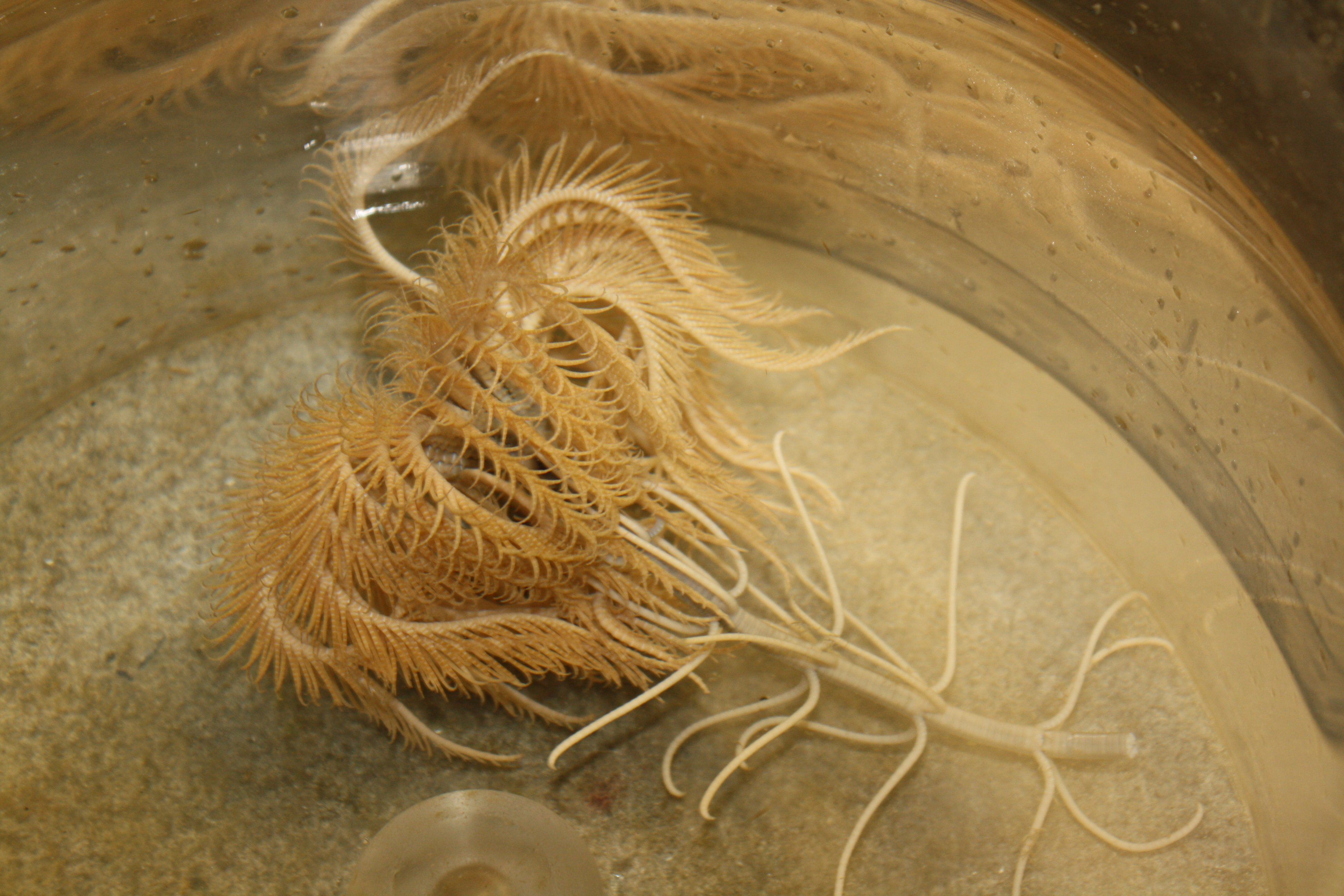 Crinoid in sample dish for further study. North Atlantic.